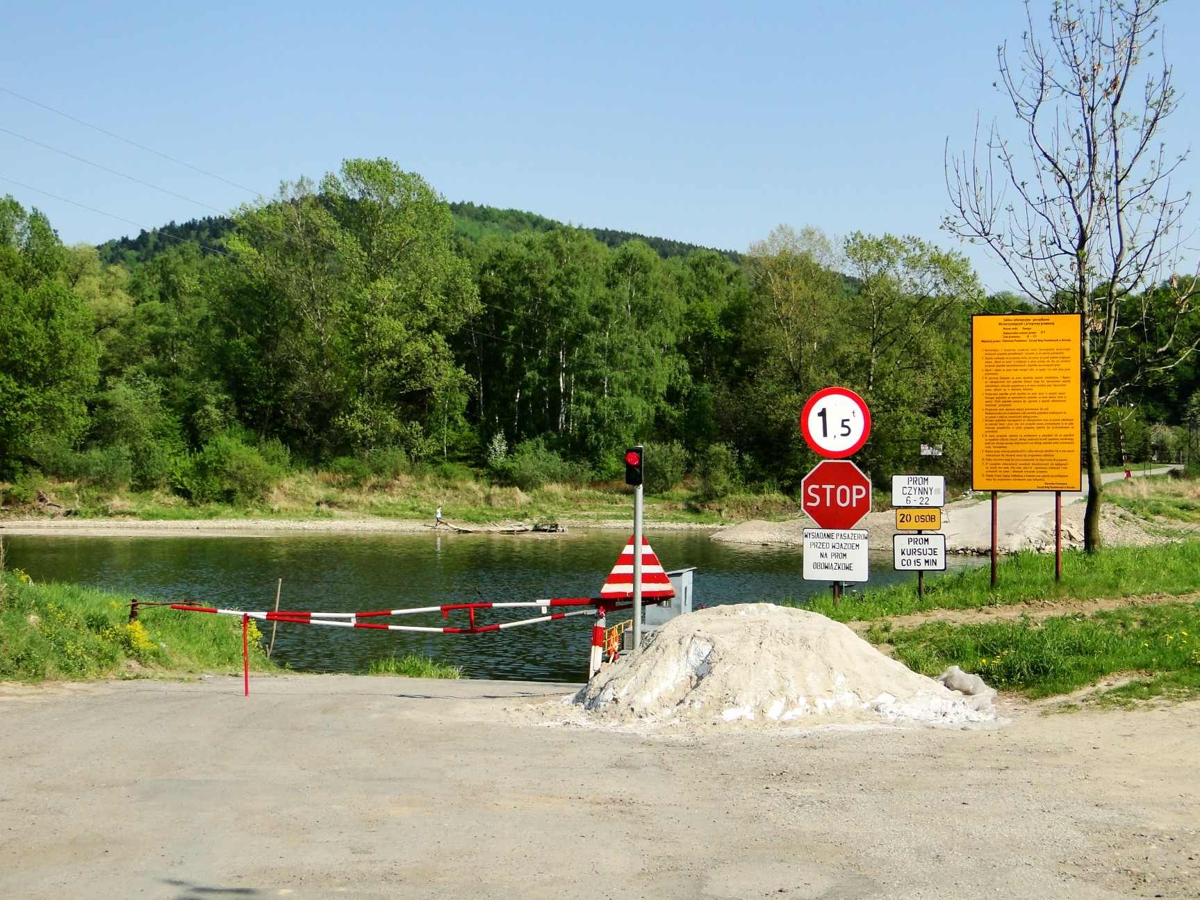 Entrance to ferry on Dunajec between Piaski Drużków and Czchów (view from west bank - Czchów).